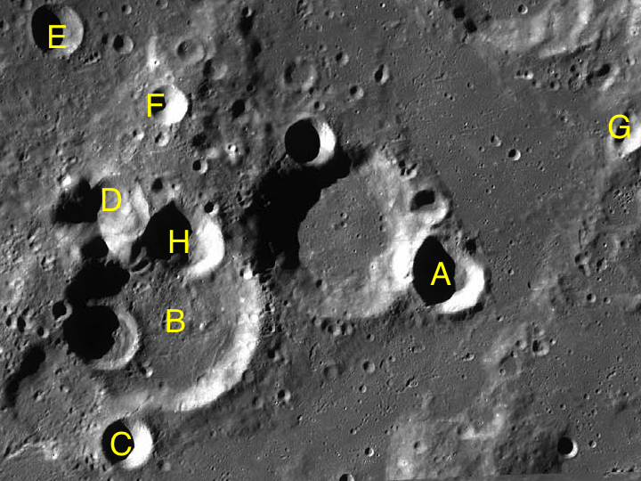 Weigel satellite craters